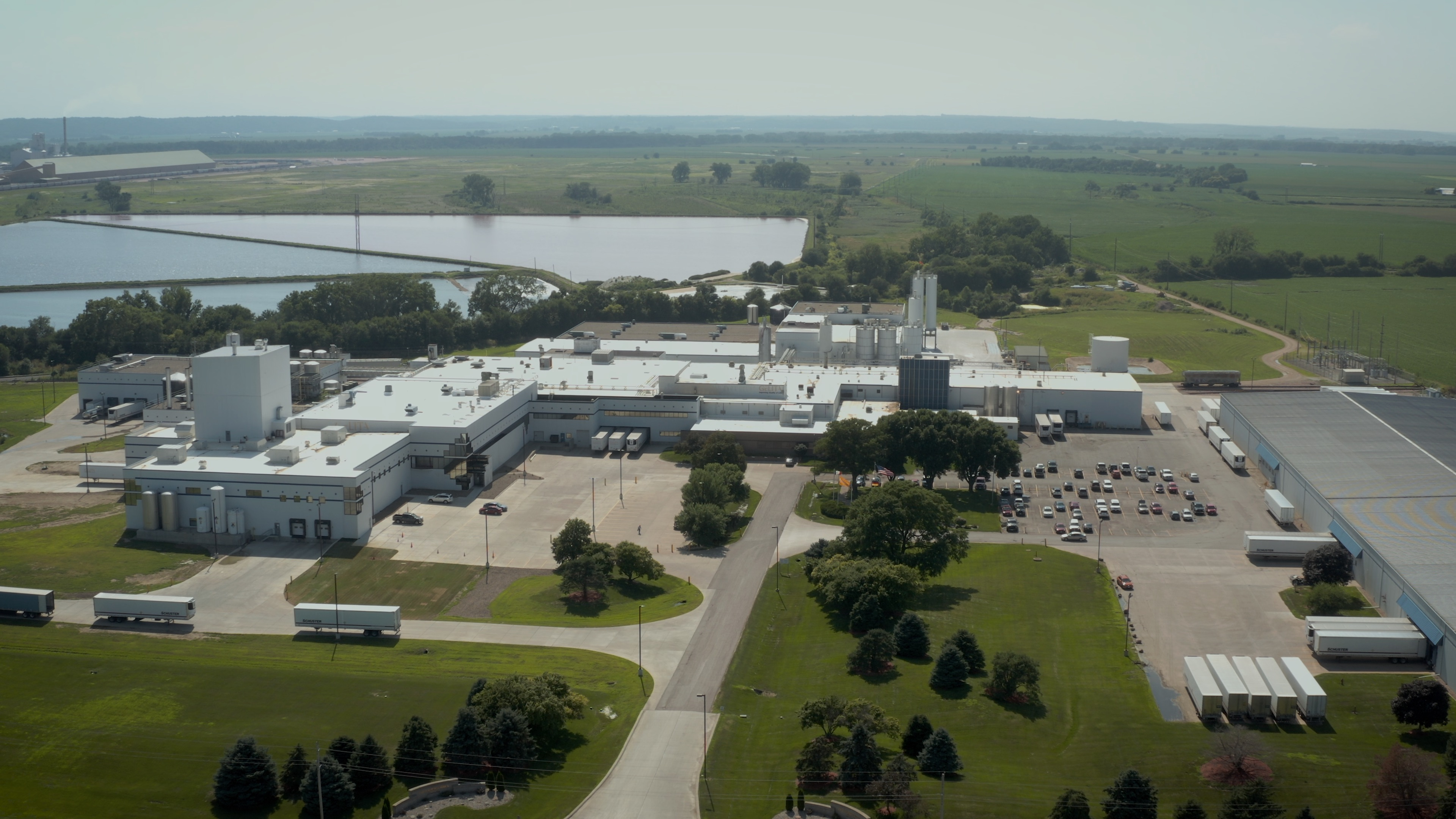 The plant in Sergeant Bluff, Iowa, is the largest gelatin factory in the world.